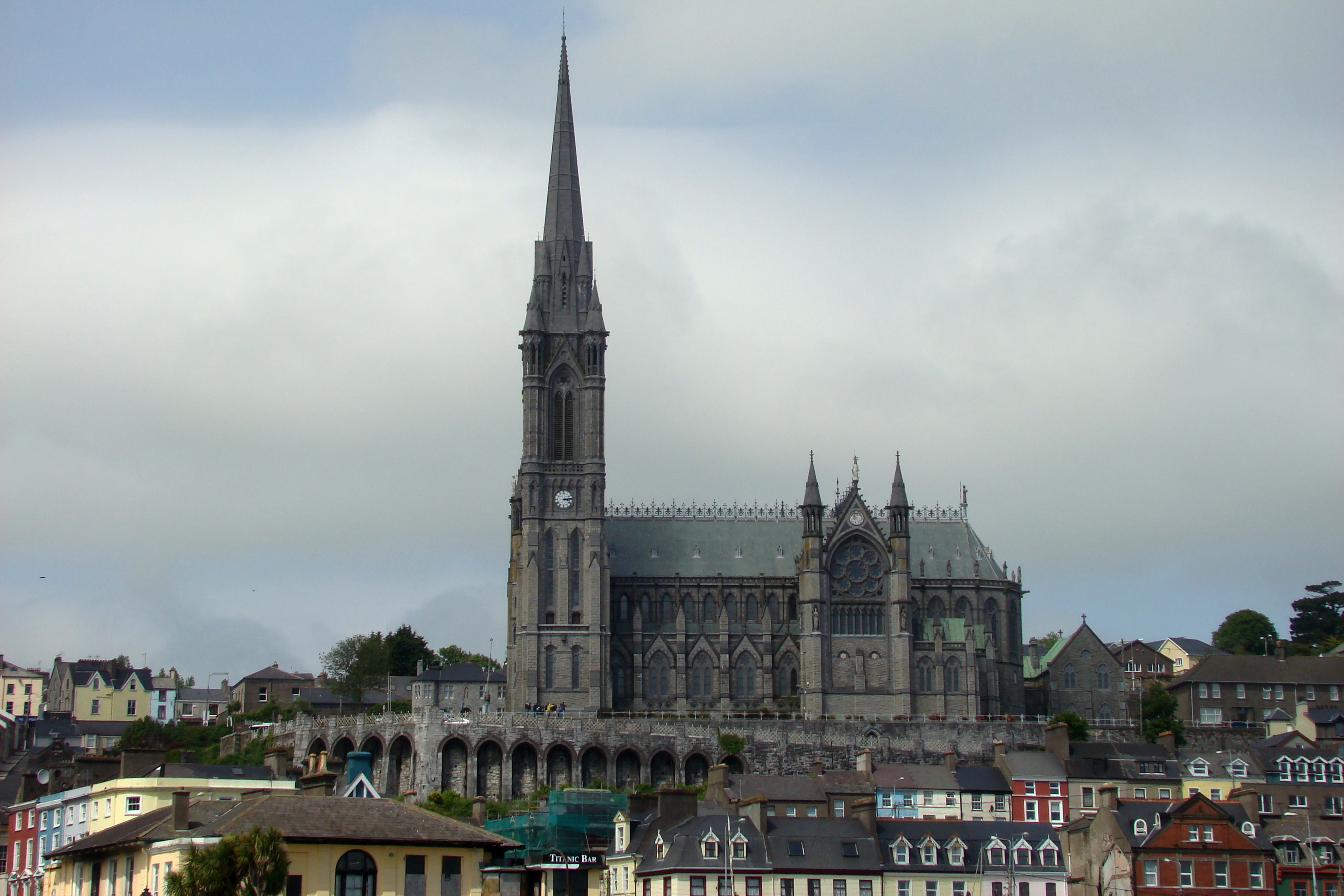 Cobh Cathedral above the town